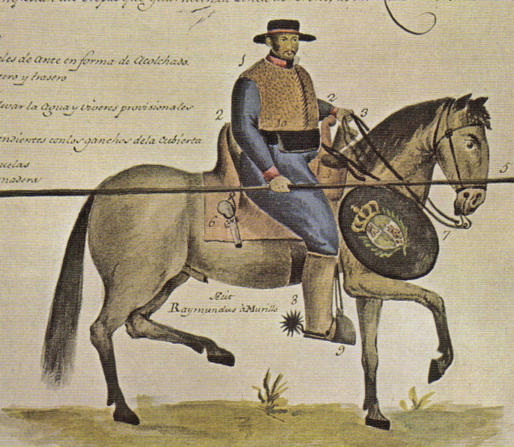 This image represents a 2008 reprint of an early w:19th Century original. See also Image:Cuera dragon.jpg. The original 19th Century engraving is of an 18th Century dragoon in colonial New Spain (Mexico), from a series of fasicules (small books) edited by Osprey. The fascicule in which this engraving appears has the title La cavalerie de la Nouvelle-Espagne (The cavalry of New-Spain). The original series is reprinted by DelPrado Editeurs (4 rue de Rome, 75008 Paris) in a serial, L'histoire de la cavalerie, that is sold in France with a series of figurines. The text of the original fasicules is reduced to a synopsis by editor Philip Haythornwaite. The fasicule La cavalerie de la Nouvelle-Espagne was reprinted in 2008.